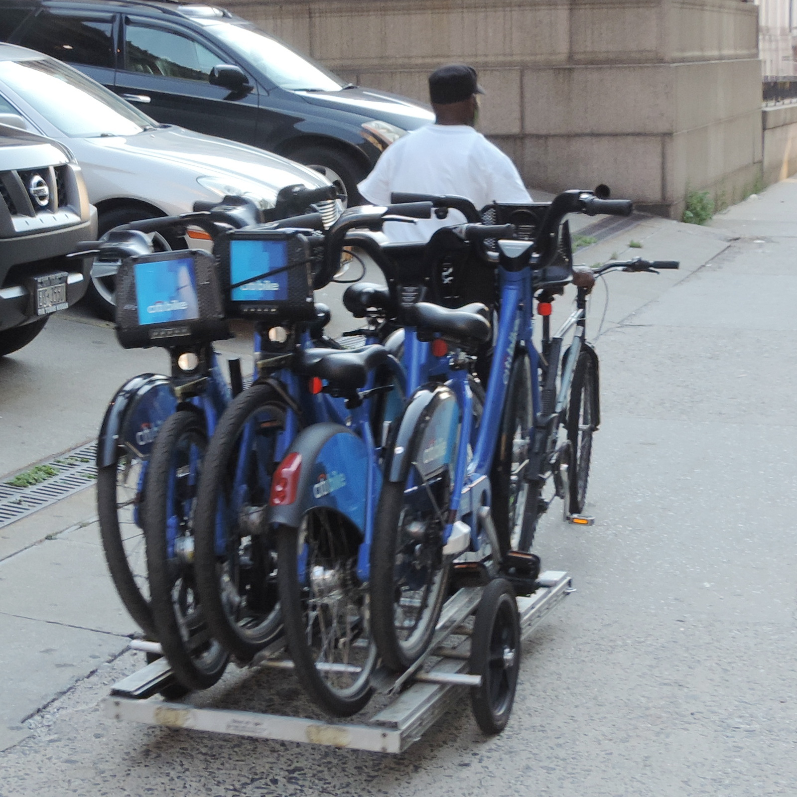 Looking east as bike mover heads east towards Penn Station on a sunny morning.